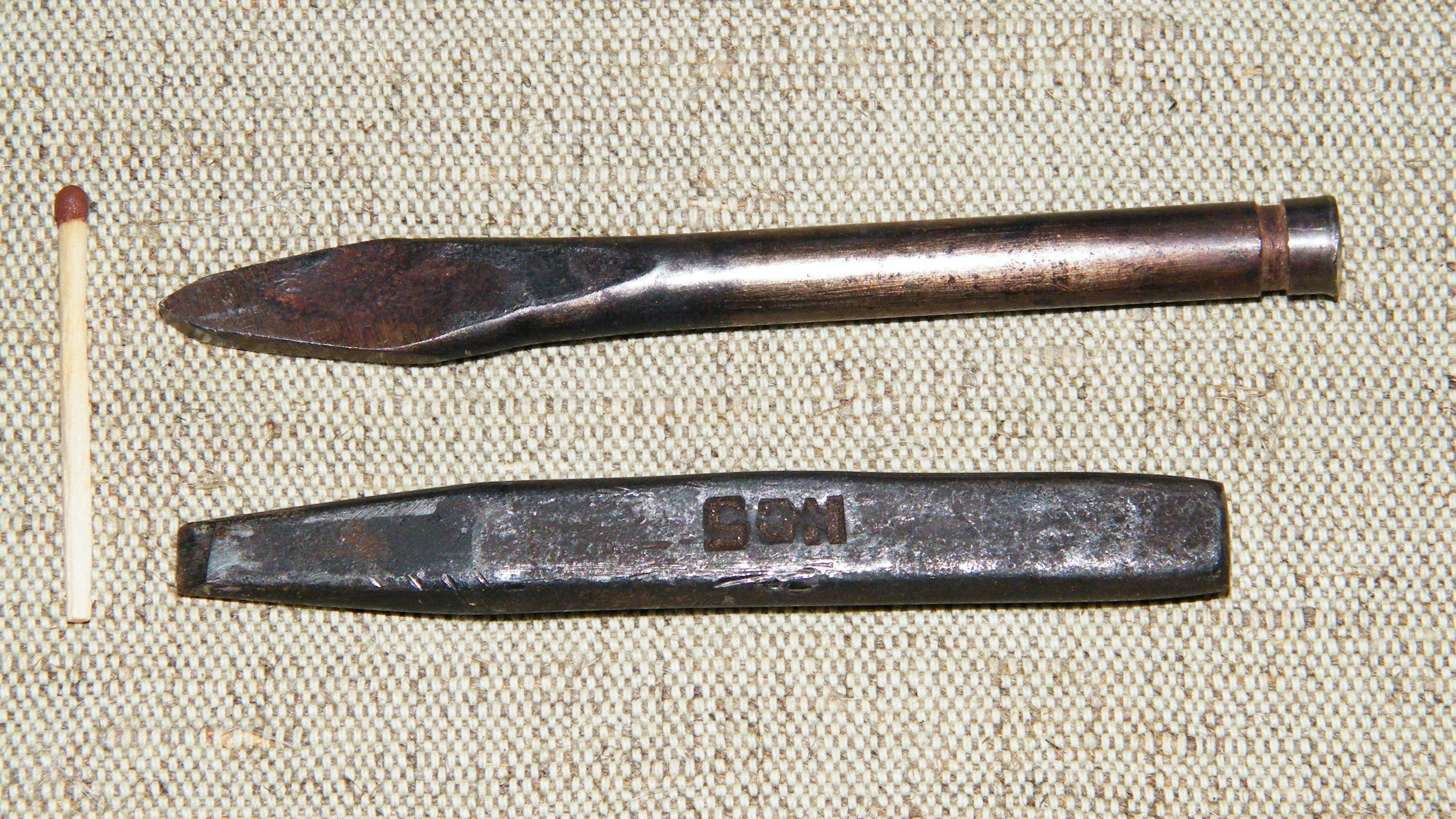 Крейцмейсель и зубило